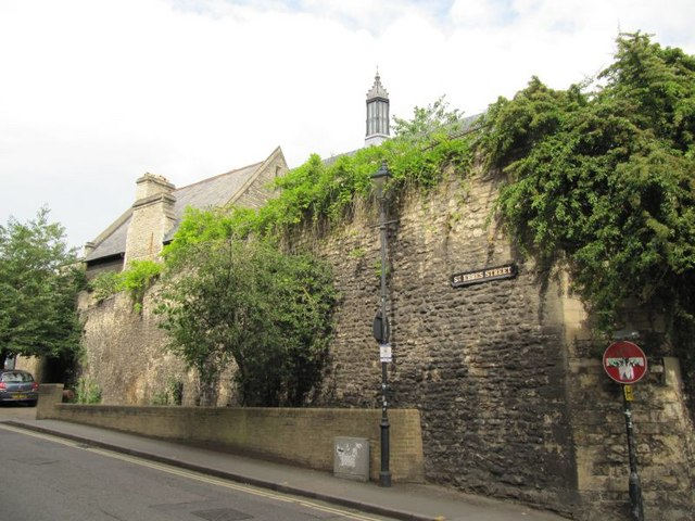 Wall in St Ebbe's Street The wall is part of Pembroke College and is at the end of St Ebbe's Street before it becomes Littlegate Street.